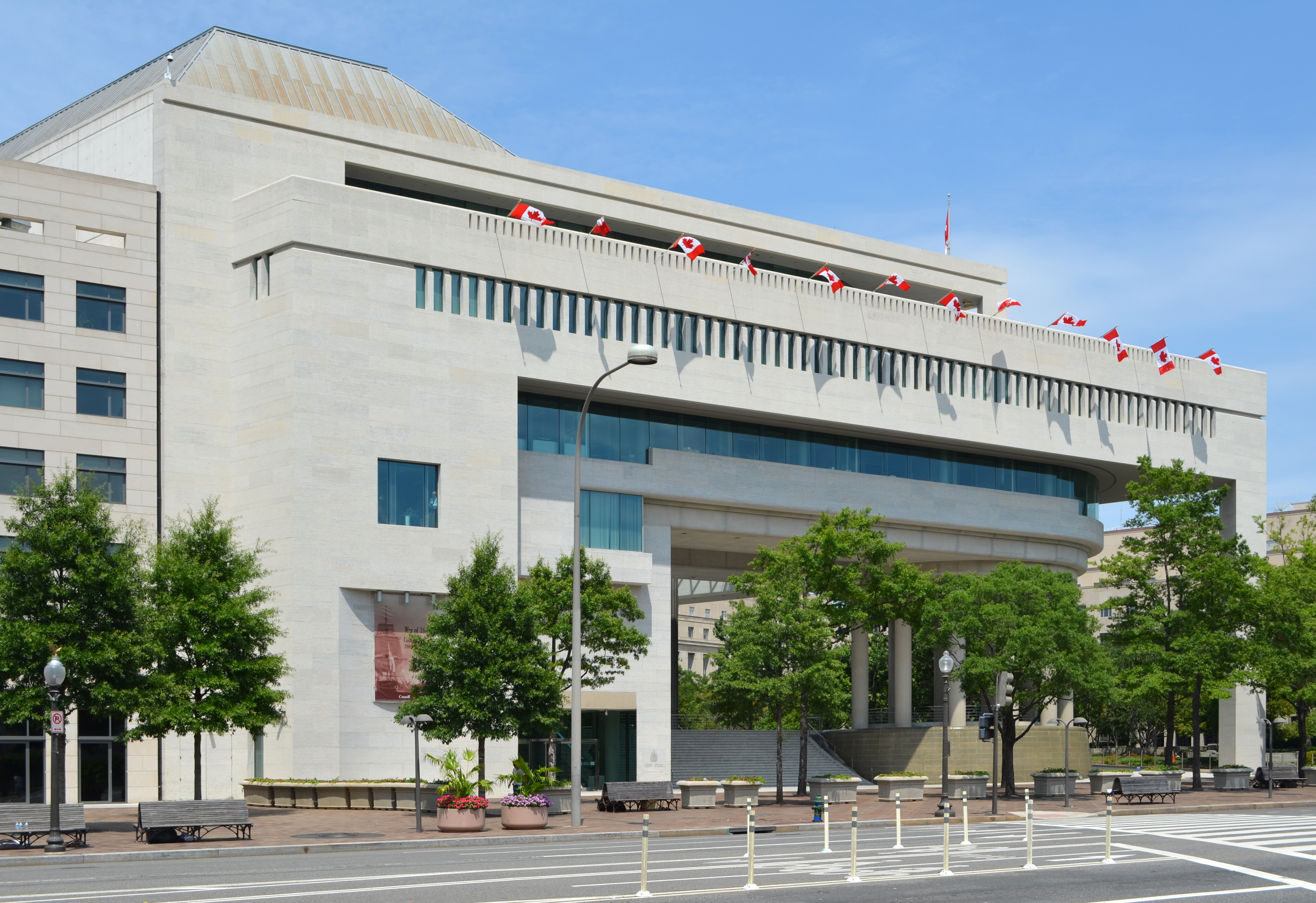 Embassy of Canada